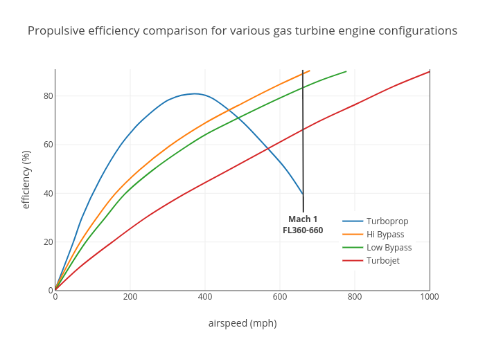 Propulsive efficiency comparison for various gas turbine engine configurations Original chart : Rolls-Royce 1992 via MIT Data retrieved with WebPlotDigitizer Chart recreated with plot.ly (open access for editing)